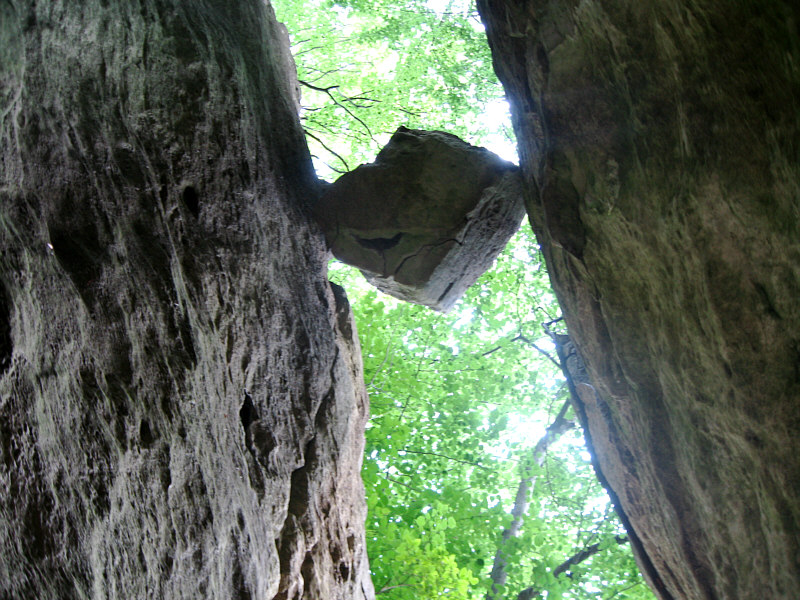 The "Lügenstein"